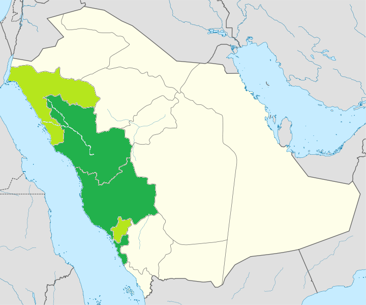 The Distribution of spoken Hejazi Arabic in Saudi Arabia.